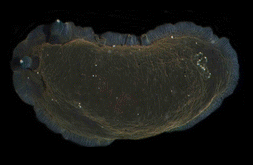 Photo of dorsal view of Dendrodoris krebsii.